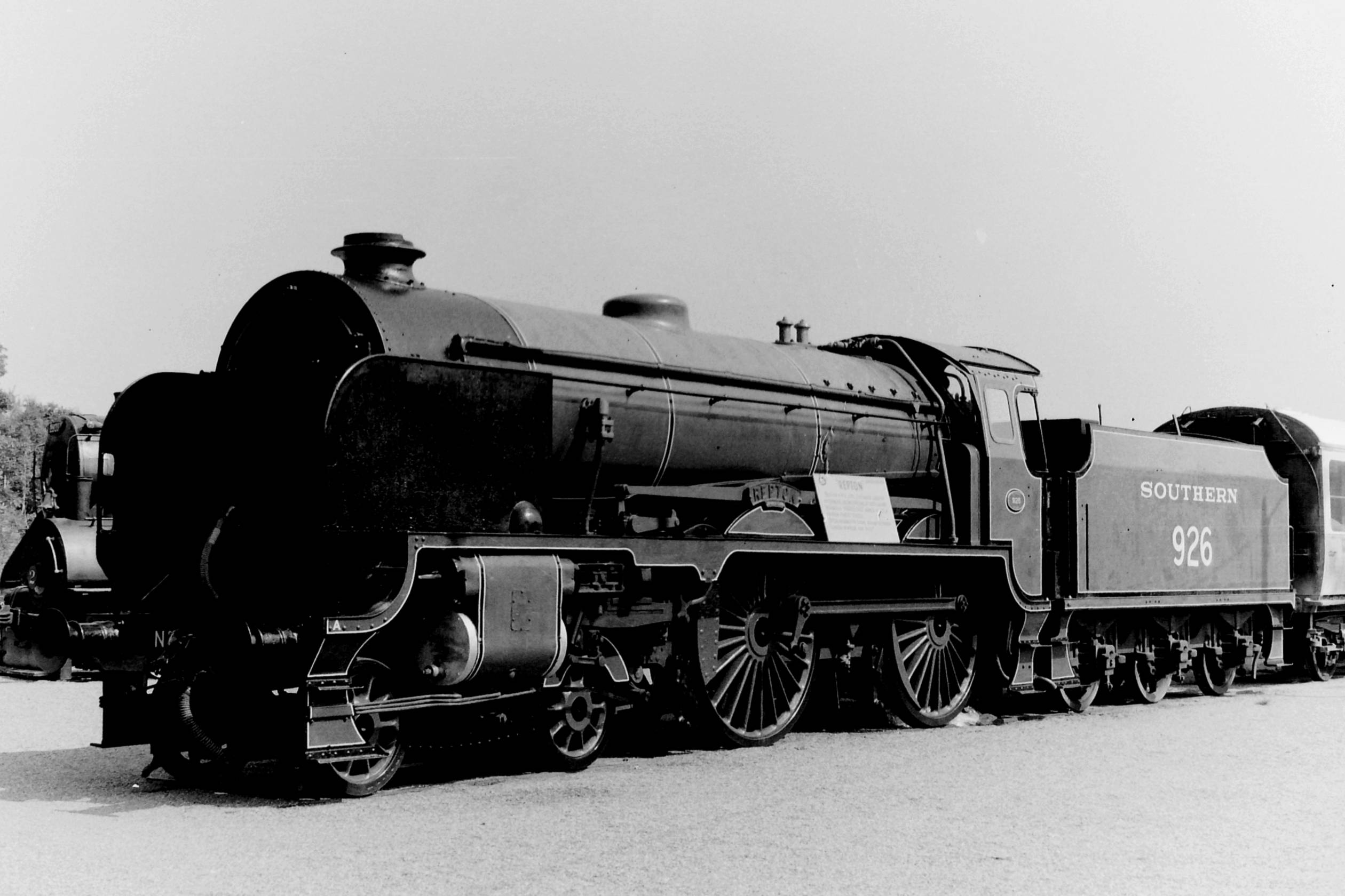 Southern Railway Class "V" or "Schools" 4-4-0 No.926 "Repton" with single chimney and smoke deflectors at Steamtown, Bellows Falls, Vermont 8/70.